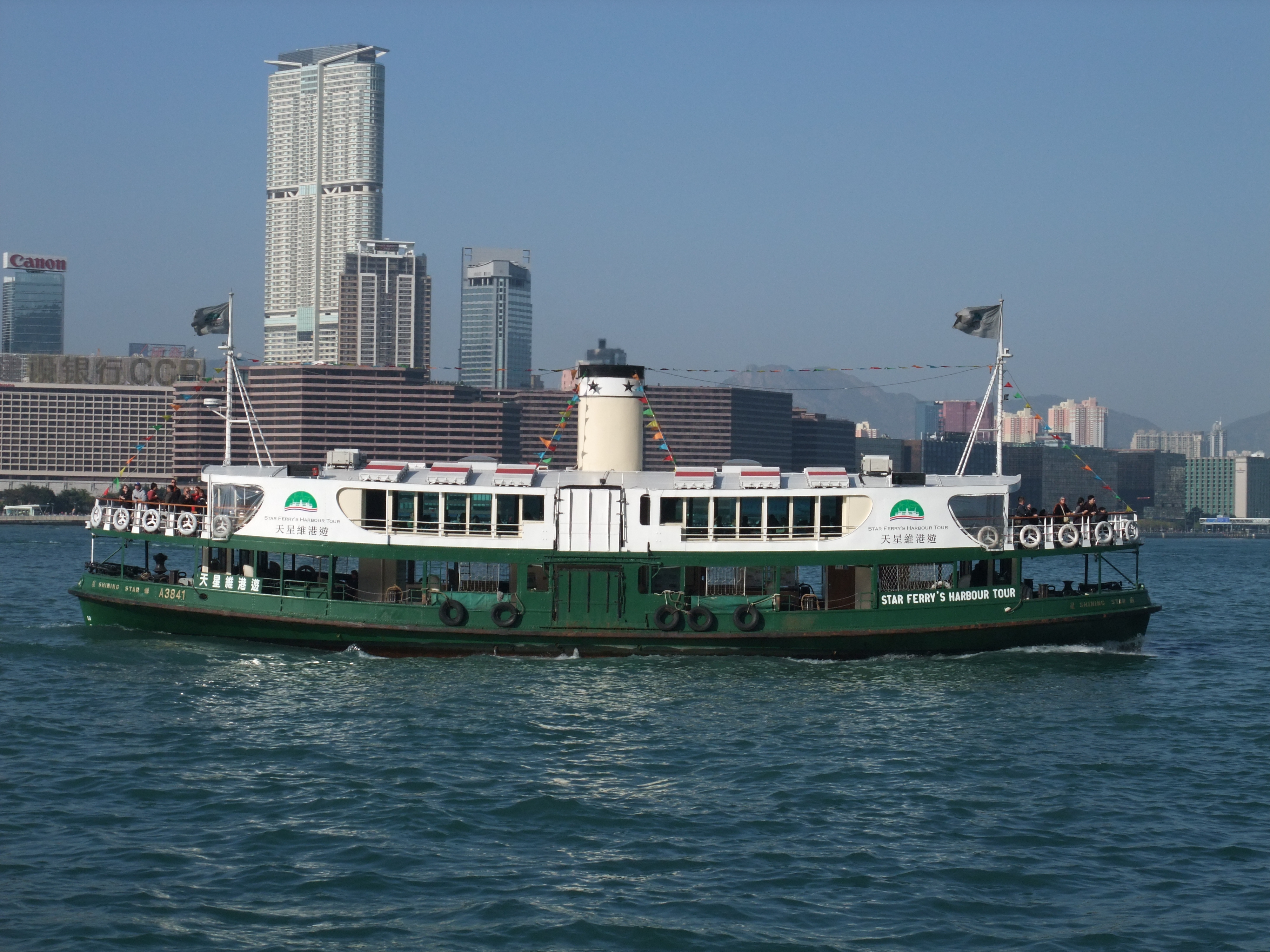 Photo of Shining Star